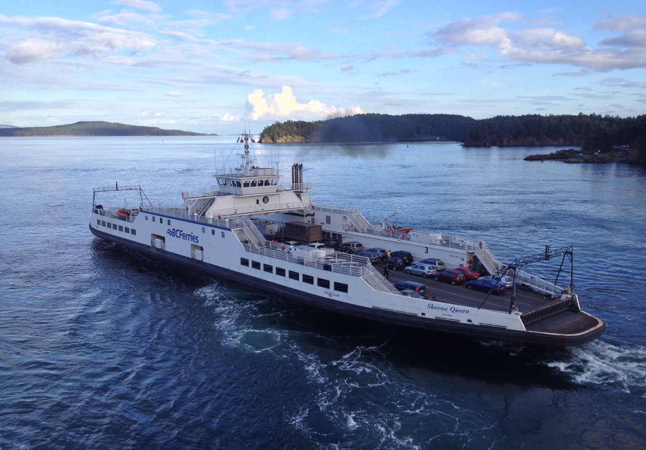 MV Skeena Queen, ship of BC Ferries.